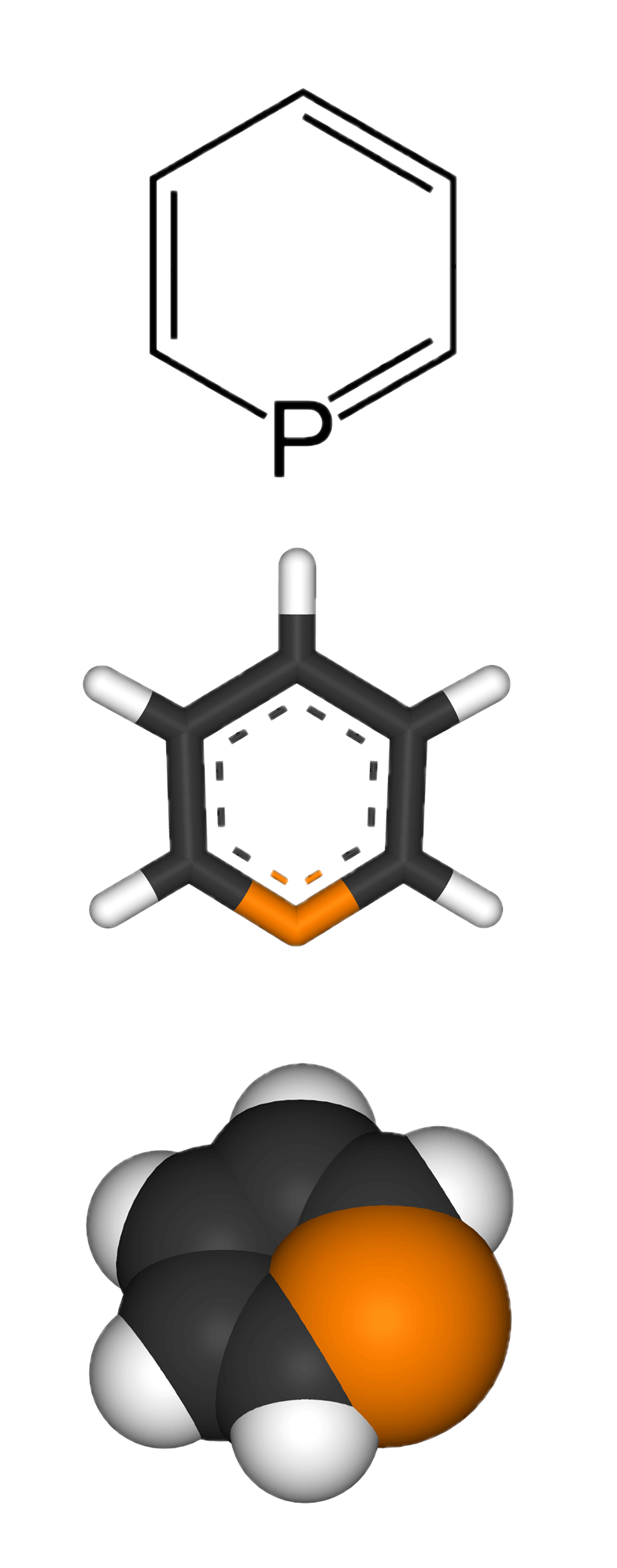 Phosphorine-structures-vertical